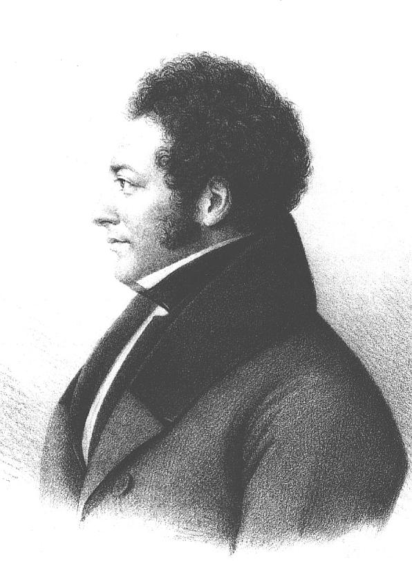 Eduard Gans (Lithographie, gedruckt 1839)